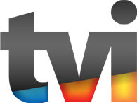 TVI logo